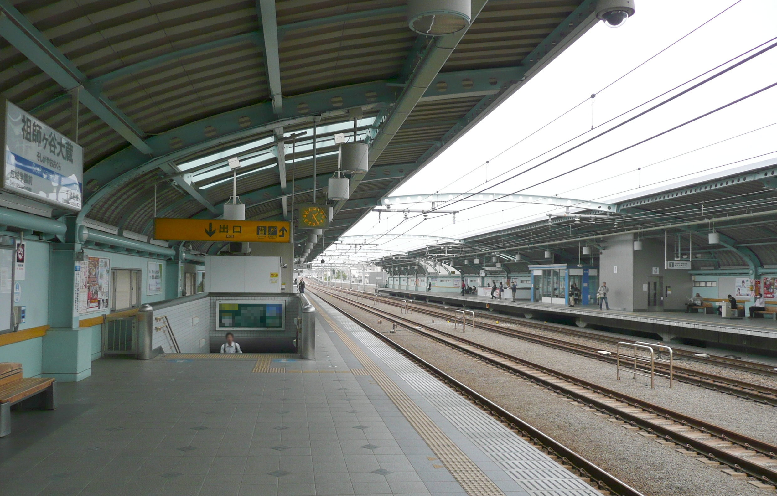 Soshigaya-Ōkura Station